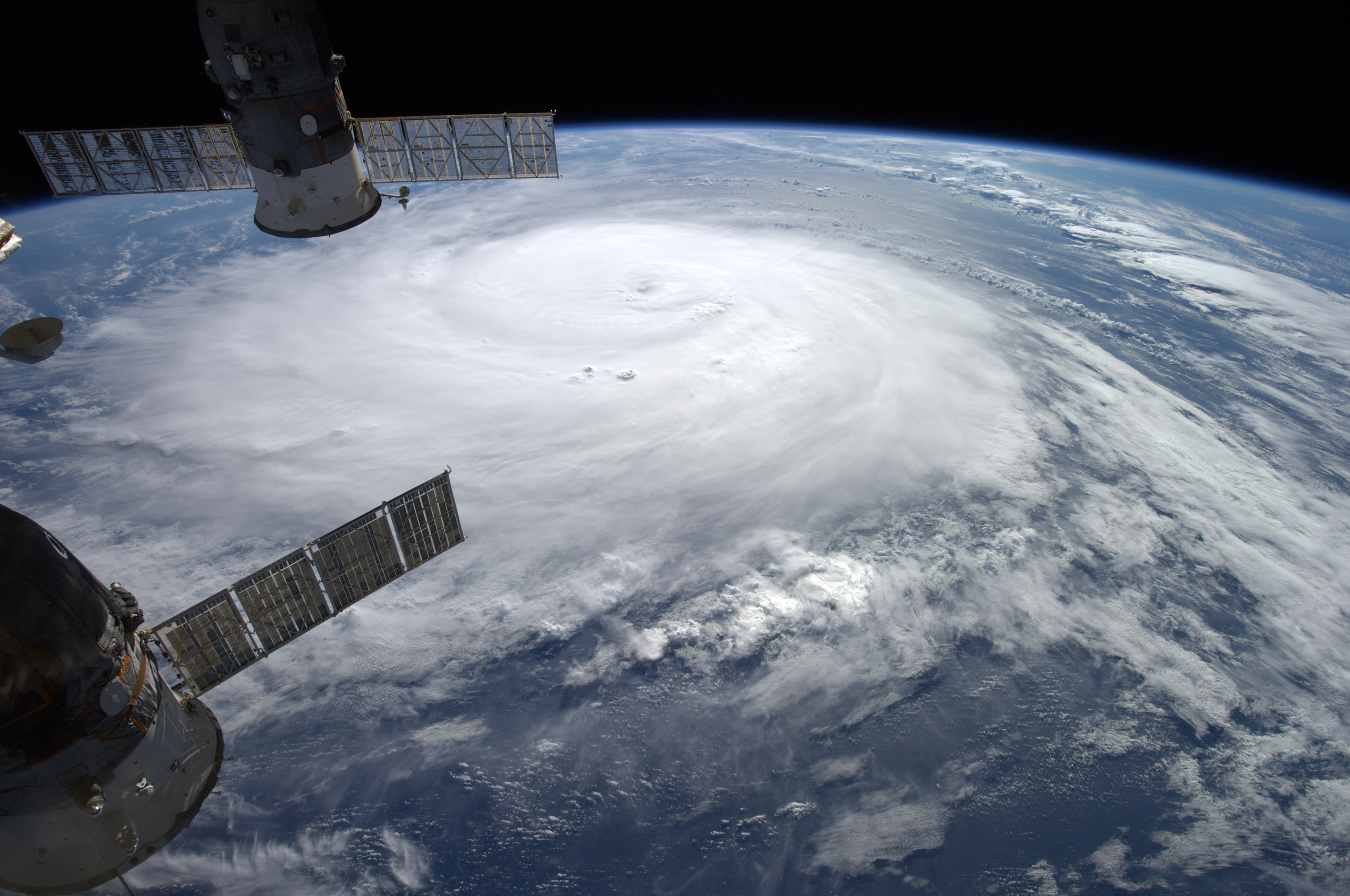 Hurricane Gonzalo viewed from the ISS on October 16, 2014, before it reached its peak intensity.